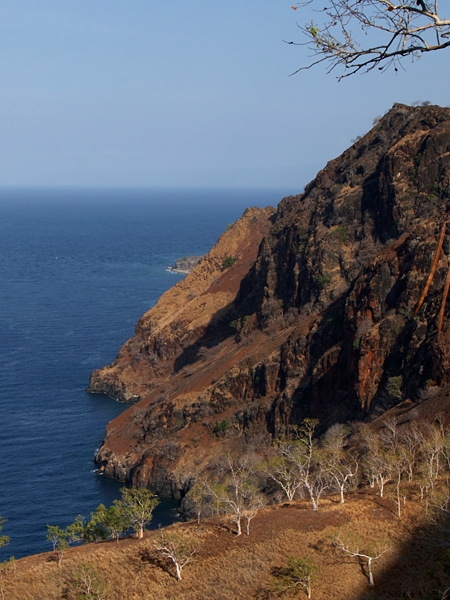 Manatuto cliffs/East Timor